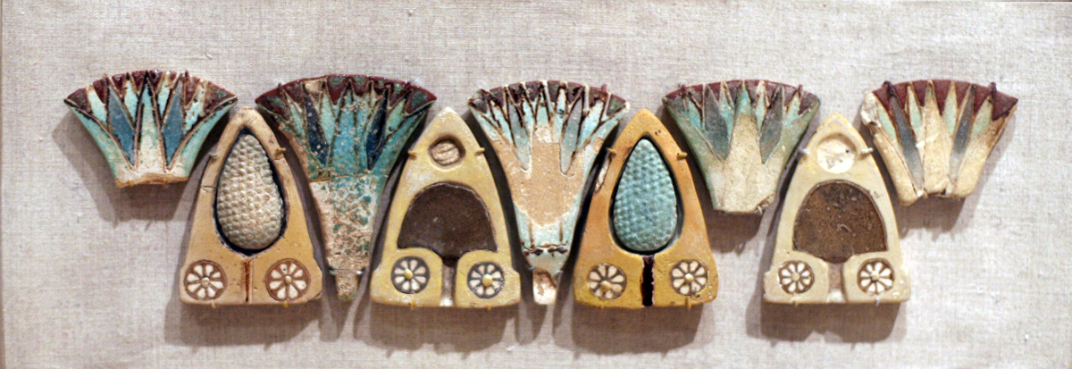 Tile Frieze Representing Lotus and Grape, ca. 1184-1153 B.C.E. Faience, glazed, 11 7/16 x 2 13/16 in. (29.1 x 7.1 cm). Brooklyn Museum, Charles Edwin Wilbour Fund, 55.182a-i.